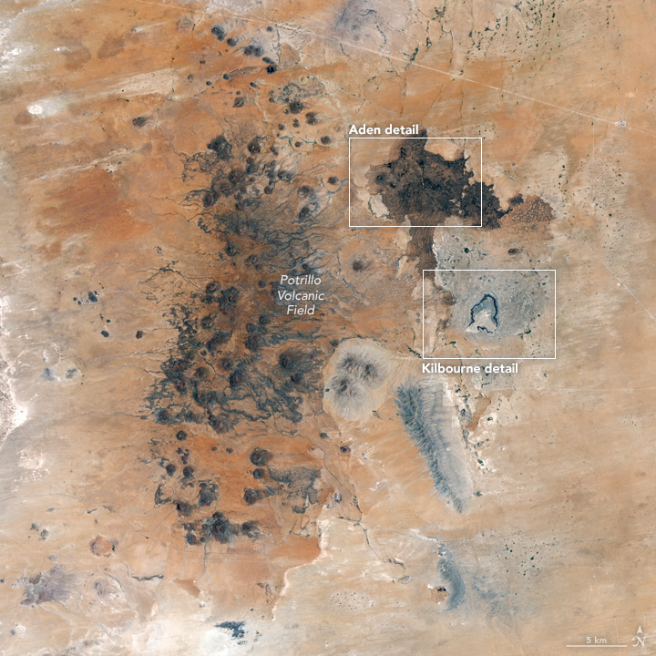 The Potrillo volcanic field is one such testing ground. Located southwest of Las Cruces, New Mexico, and west of El Paso, Texas, Potrillo occupies more than 1,000 square kilometers (400 square miles) near the U.S. border with Mexico. Its parched lands are part of the Chihuahuan Desert, which covers much of northern Mexico and stretches all the way to Albuquerque. Potrillo is considered dormant now, with its last volcanic activity occurring about 20,000 years ago. Stained black by basalt, the area offers a smorgasbord of lava flows, craters, and cones from both explosive and effusive volcanoes. This diversity of volcanic features makes Potrillo appealing to planetary geologists.